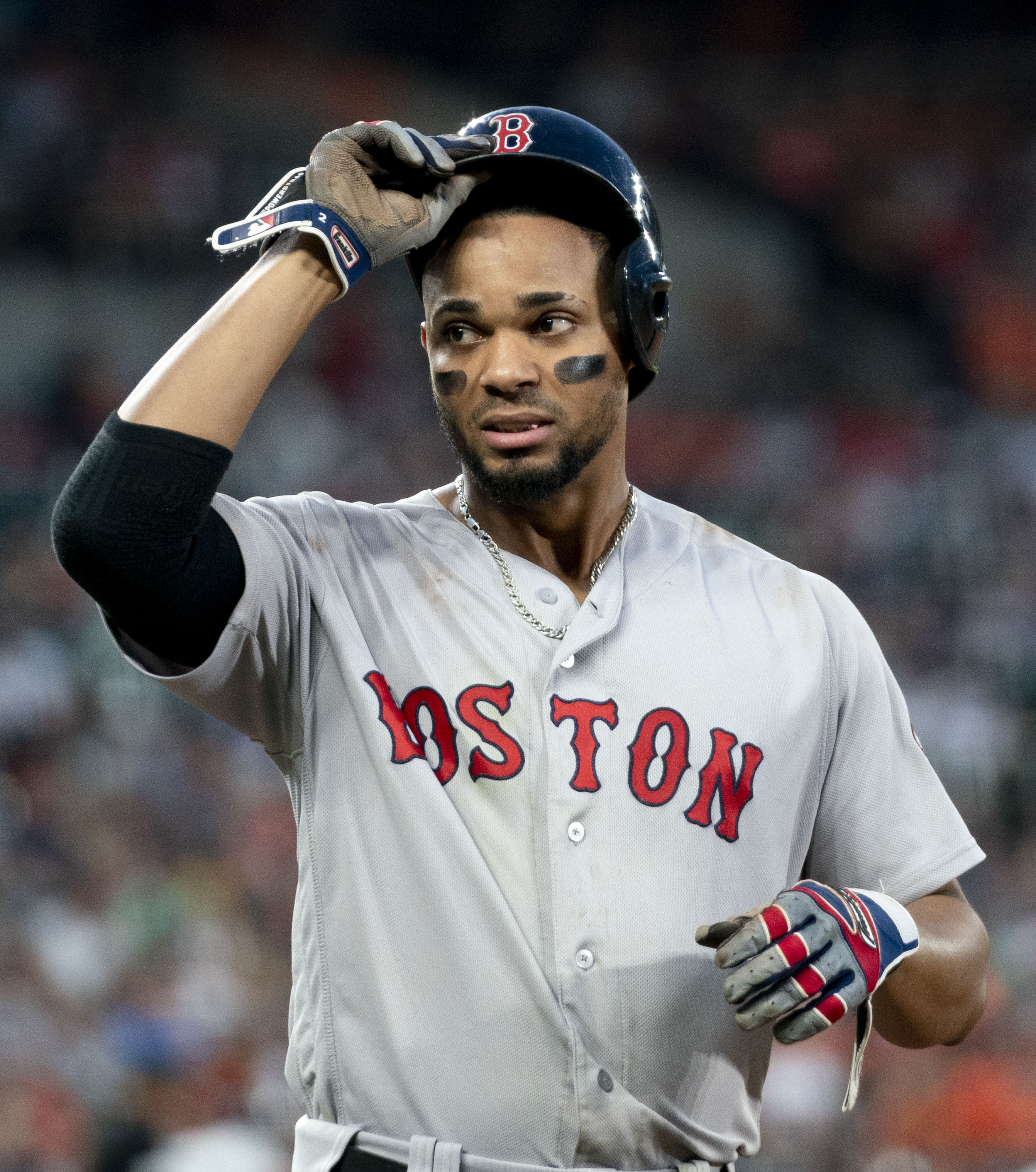 Red Sox at Orioles 8/10/18